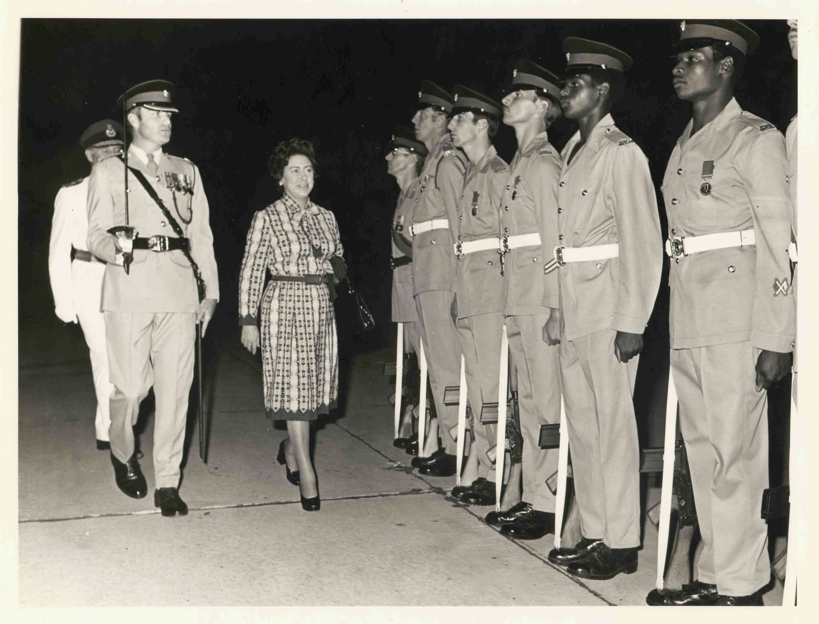 RAF Akrotiri, Cyprus. HRH The Princess Margaret, accompanied by Major Harrington Spier MBE., inspecting the Royal Guard of Honour comprising Support Company, 3 R Anglian; a detachment from the RAF Regiment; a half troop from the Queens Own Hussars, and the Band and Drums of 3 R Anglian.